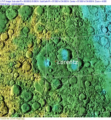 Clementine LIDAR Altimeter texture from PDS Map-a-Planet remapped to north-up aerial view by LTVT. The dot is the center position and the white circle the main ring position from Chuck Wood's Impact Basin Database. Grid spacing = 10 degrees.